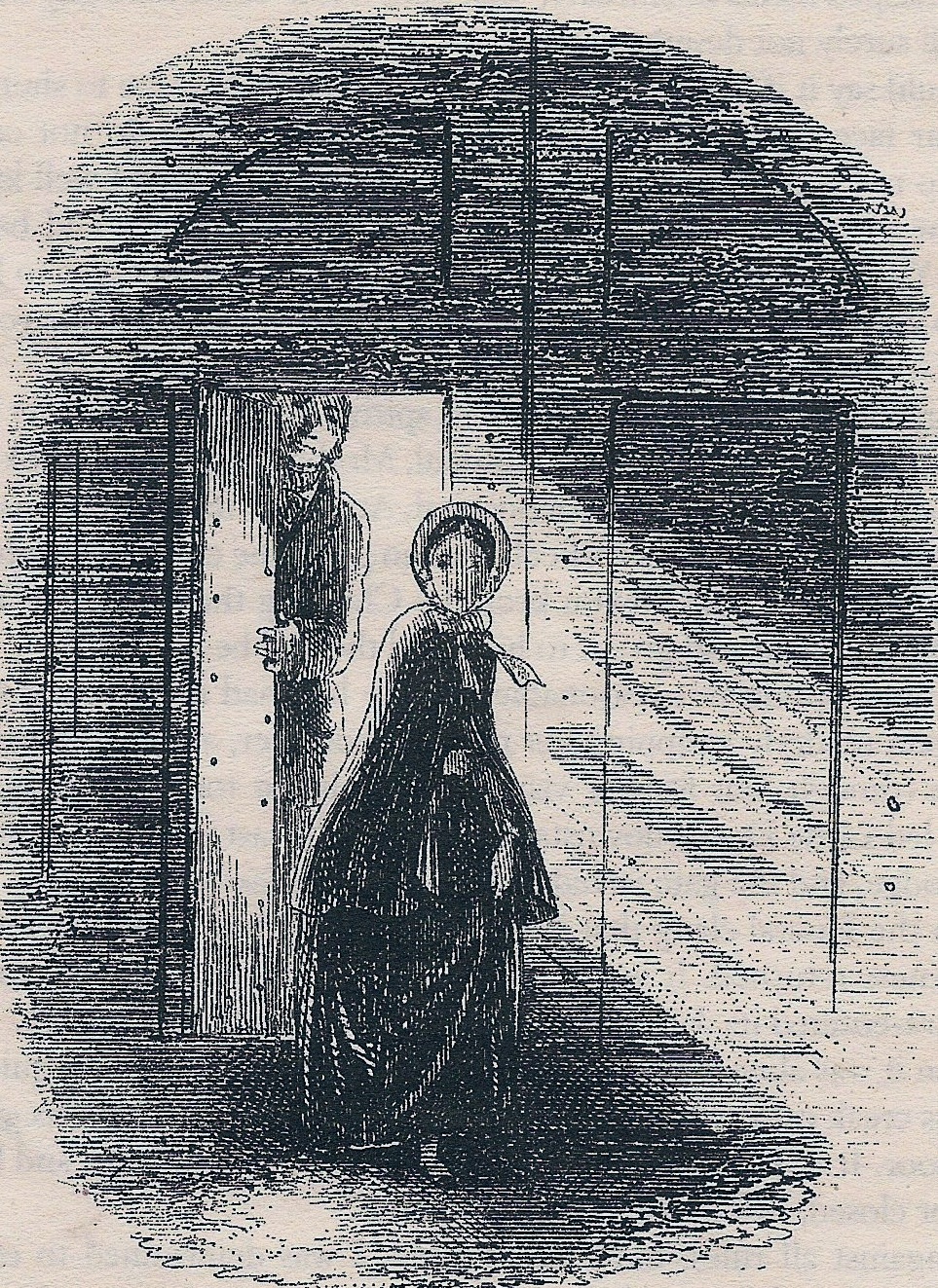 Little Dorrit, Amy Dorrit leaving the Marshalsea, by Phiz